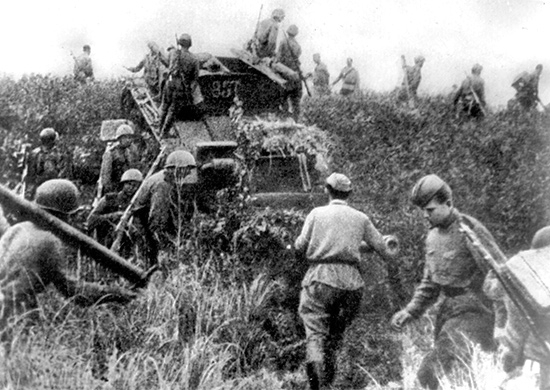 Soviet infantry crosses the border of Manchuria. August 9, 1945.